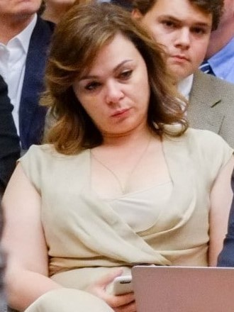 Russian lawyer Natalia Veselnitskaya attends a House Foreign Affairs Committee hearing on “U.S. Policy Toward Putin’s Russia,” on June 14, 2016.